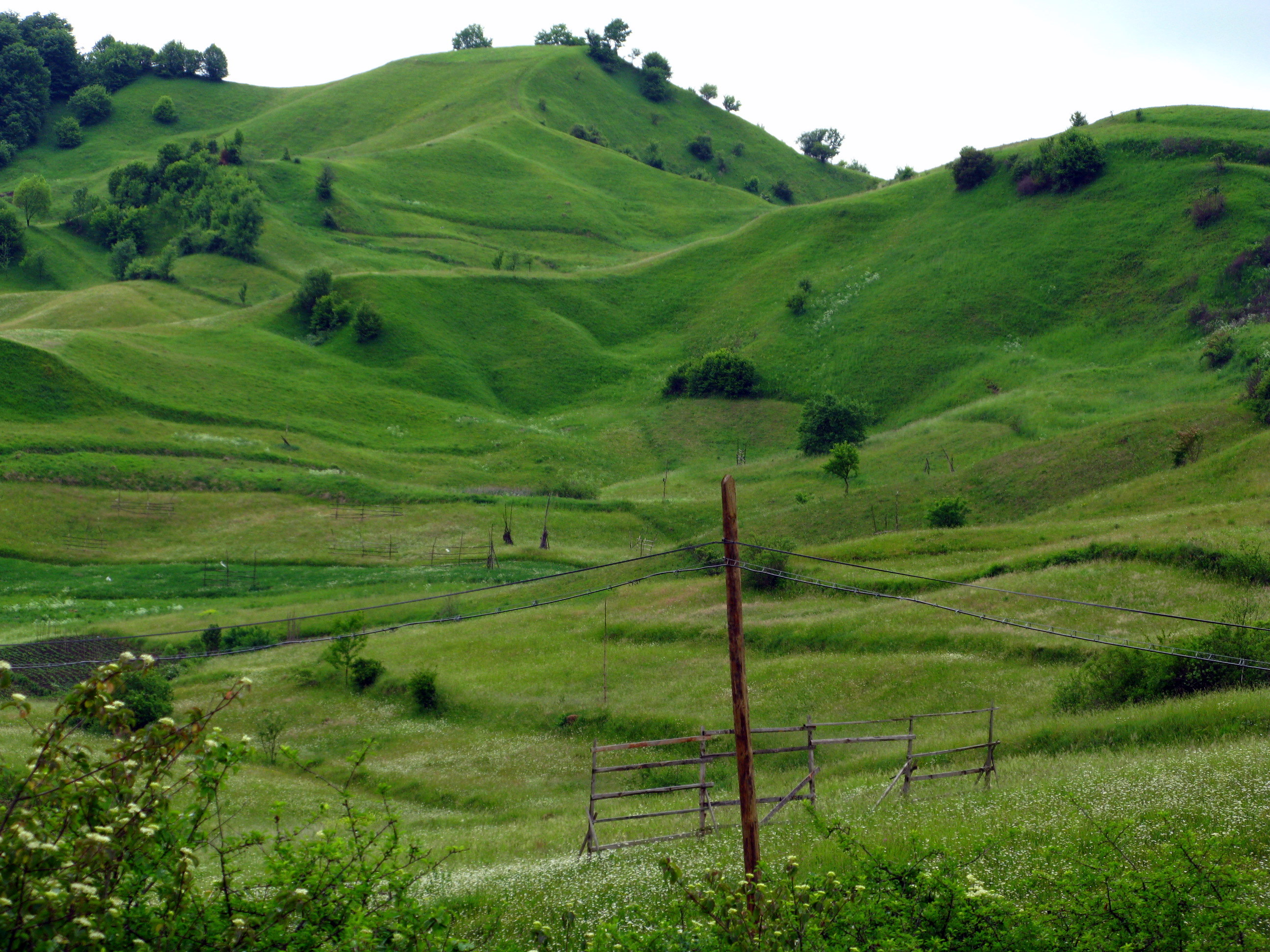 Mountain meadows in the vicinity of Bocicoel in Maramureş Mountains (Inner Eastern Carpathians) in north of Rumania / EU. Characteristic of the area is very beautiful landscape, still marked by tedious manual labor of the peasants. The meadows are still far up mowed by hand with a scythe and not processed with machines. Hay drying racks, here empty, are a common sight.